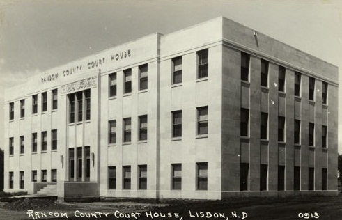 Photographic postcard of Ransom County Courthouse, Lisbon This work is in the public domain because it was published in the United States between 1924 and 1963 and although there may or may not have been a copyright notice, the copyright was not renewed. Unless its author has been dead for the required period, it is copyrighted in the countries or areas that do not apply the rule of the shorter term for US works, such as Canada (50 pma), Mainland China (50 pma, not Hong Kong or Macao), Germany (70 pma), Mexico (100 pma), Switzerland (70 pma), and other countries with individual treaties. See Commons:Hirtle chart for further explanation. This work is in the public domain in the United States because it was published in the United States between 1924 and 1977 without a copyright notice. See Commons:Hirtle chart for further explanation. Note that it may still be copyrighted in jurisdictions that do not apply the rule of the shorter term for US works (depending on the date of the author's death), such as Canada (50 p.m.a.), Mainland China (50 p.m.a., not Hong Kong or Macao), Germany (70 p.m.a.), Mexico (100 p.m.a.), Switzerland (70 p.m.a.), and other countries with individual treaties.